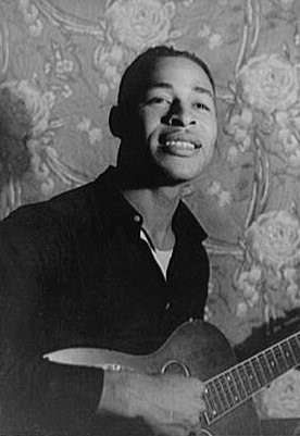 Gabriel Brown (1910 – 1972) Portrait of Gabriel Brown